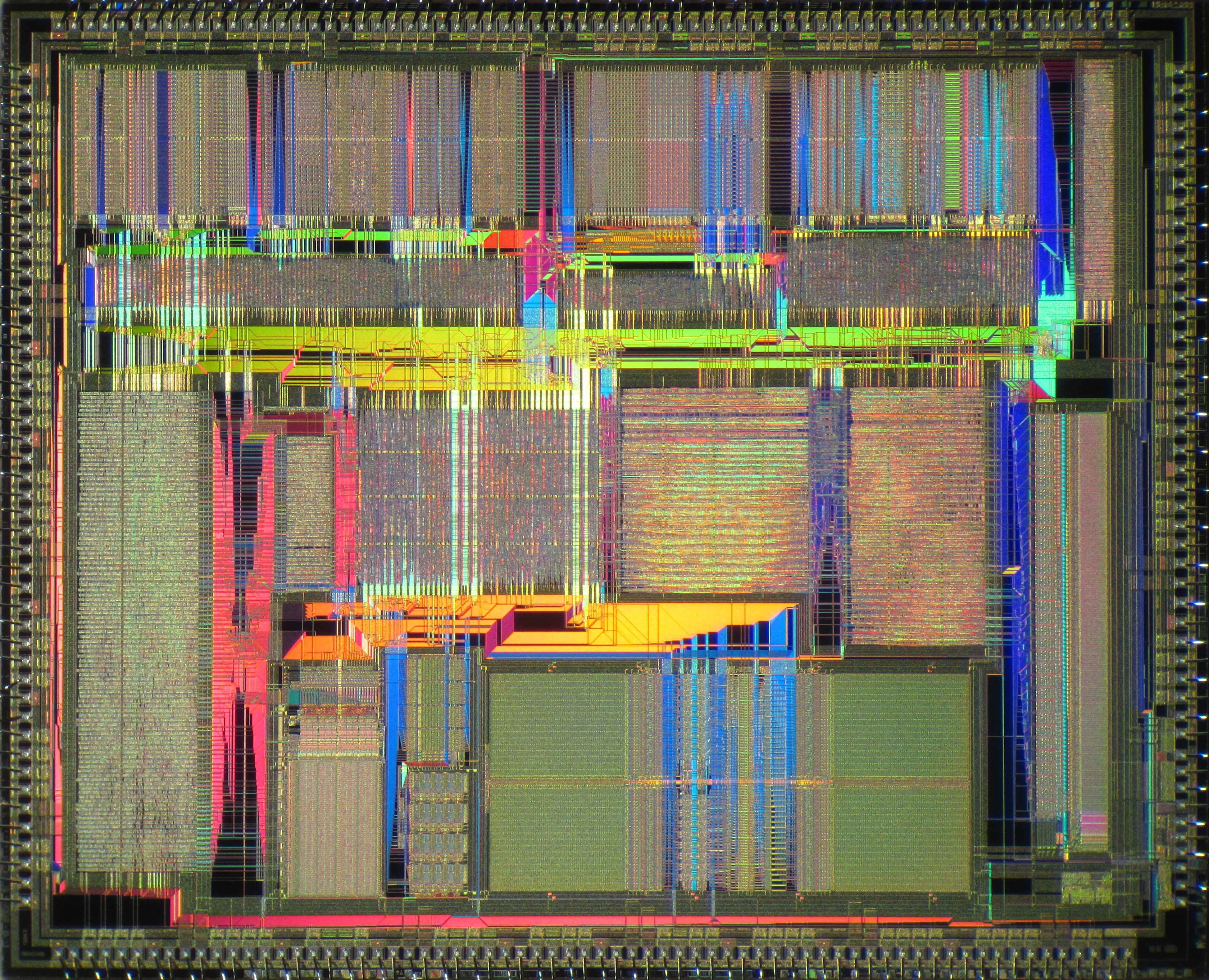 Die shot of UMC GREEN CPU U5S-SUPER33 microprocessor.